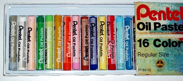 A set of Pentel oil Pastels